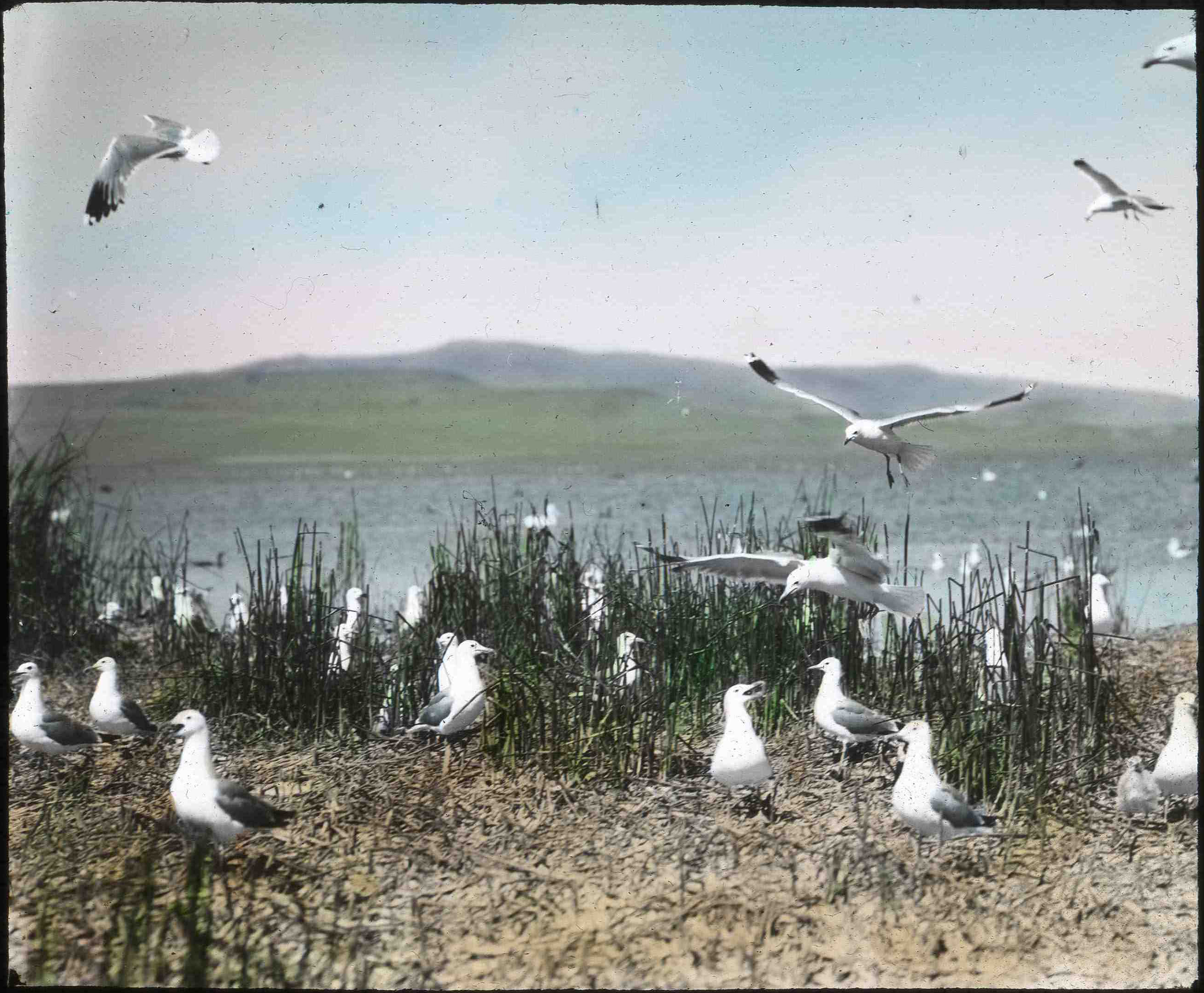 Hand painted glass slide of a colony of California Gulls at Malheur Lake, taken by Finley and Bohlman during a 1908 photograph trip to the area. Finley and Bohlman's photographs would later help Malheur become a bird refuge in 1908. Title:California Gulls Alternative Title:Larus californicus Contact:Mailto or ; Creator:Finley and Bohlman Location:Oregon FWS Site:MALHEUR NATIONAL WILDLIFE REFUGE Publisher:U.S. Fish and Wildlife Service Contributors:Audubon Society of Portland Date of original: 1908 Type:Still Image Format:JPG Item ID:Finley & Bohlman Slides150.jpg Source:NCTC Archives/Museum Language:English Audience:General File Size:129.851 kb Height:480 Width:607 Color Space:RGB Original:Format Glass plate; Full Resolution File Size:5.00 x 7.00 inches, 300 dpi (high, print quality); Date created:2007-06-04 Date modified:2008-07-21